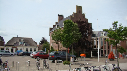 townhall Wervershoof